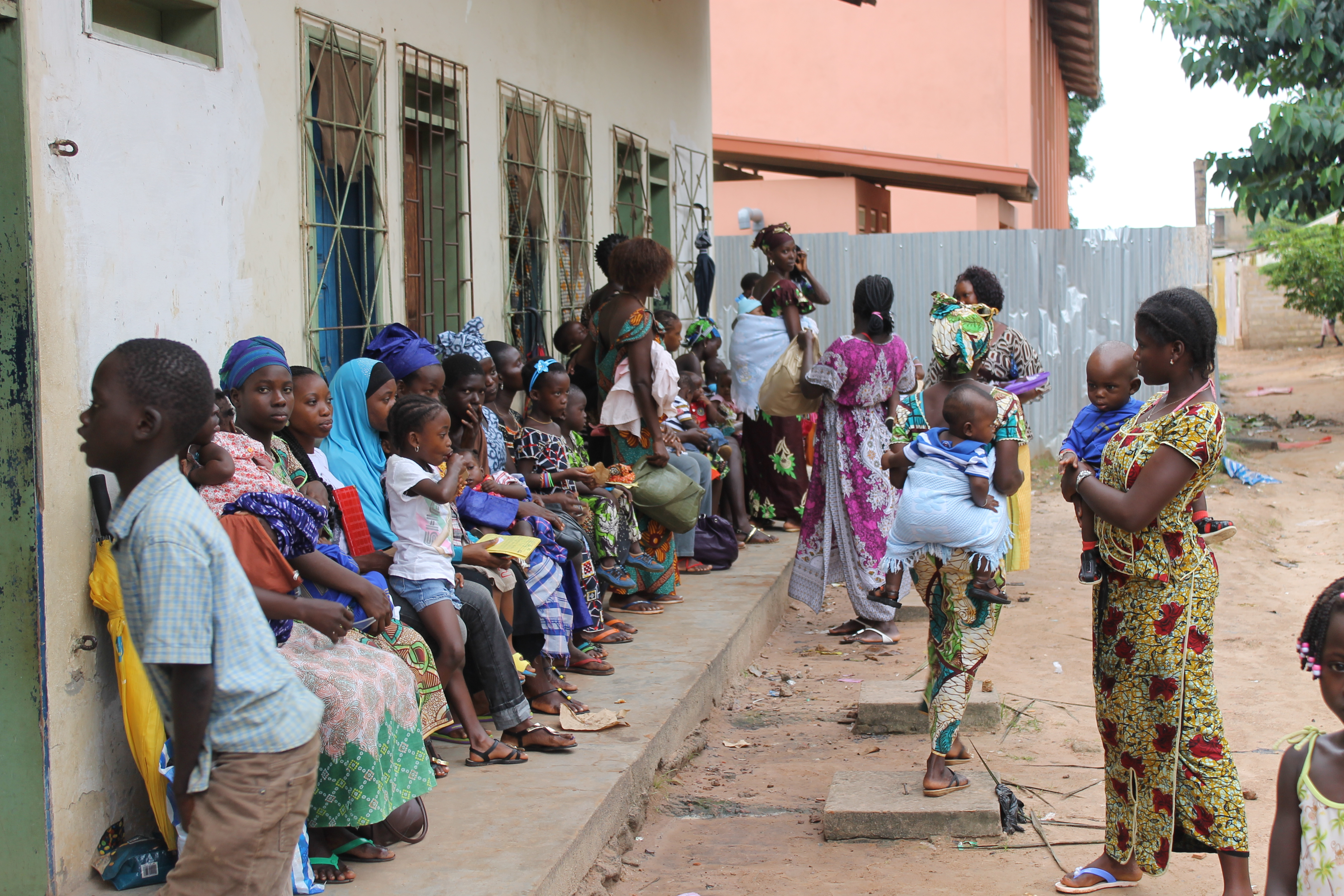 Guinea-Bissau, women waiting to see a doctor or for vaccination